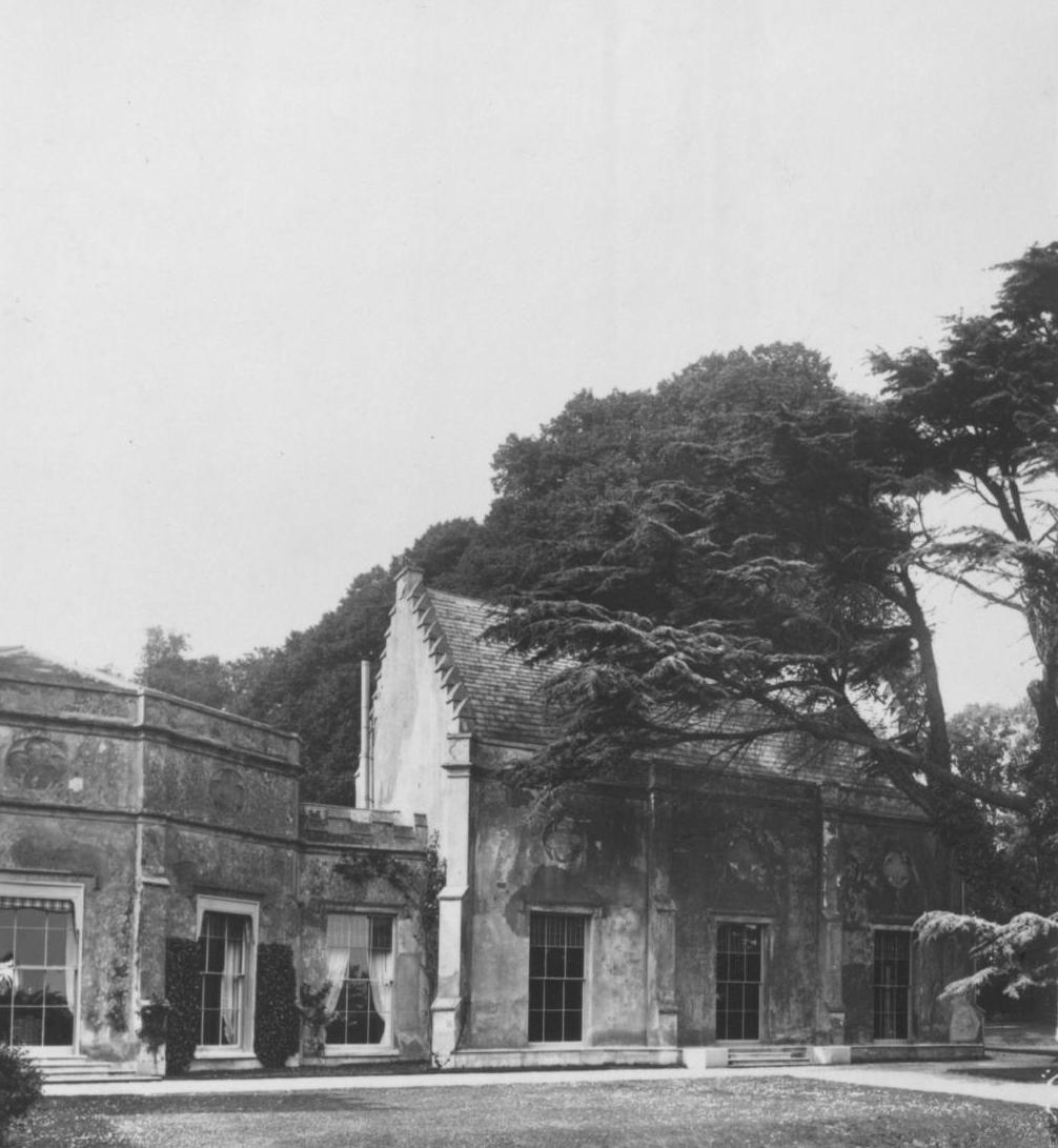 Photograph of chapel at Sandleford Priory, 1906, by Evelyn Elizabeth Myers (c. 1872-1909).